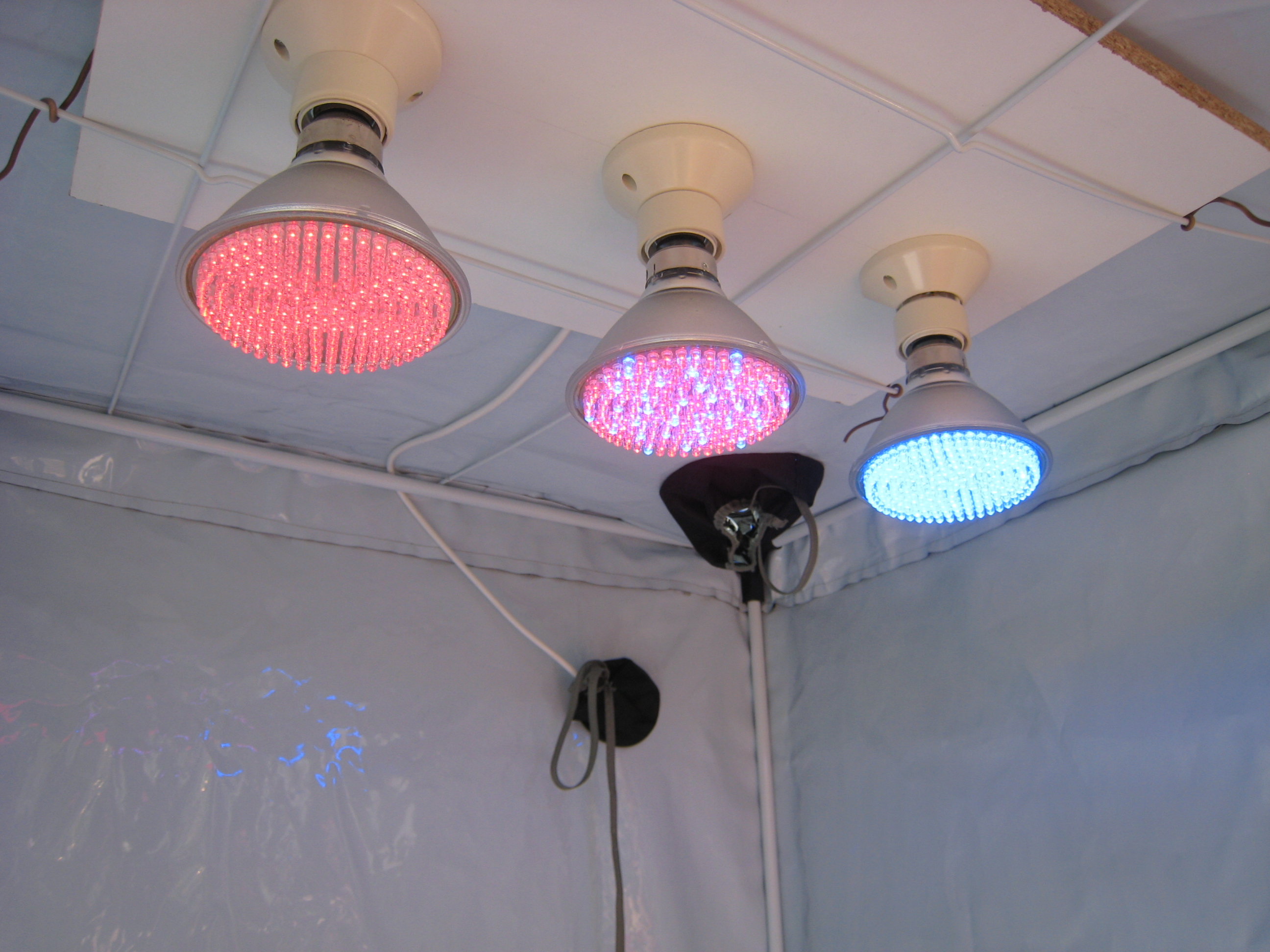 Lamps made of LEDs made for indoor cannabis cultivation